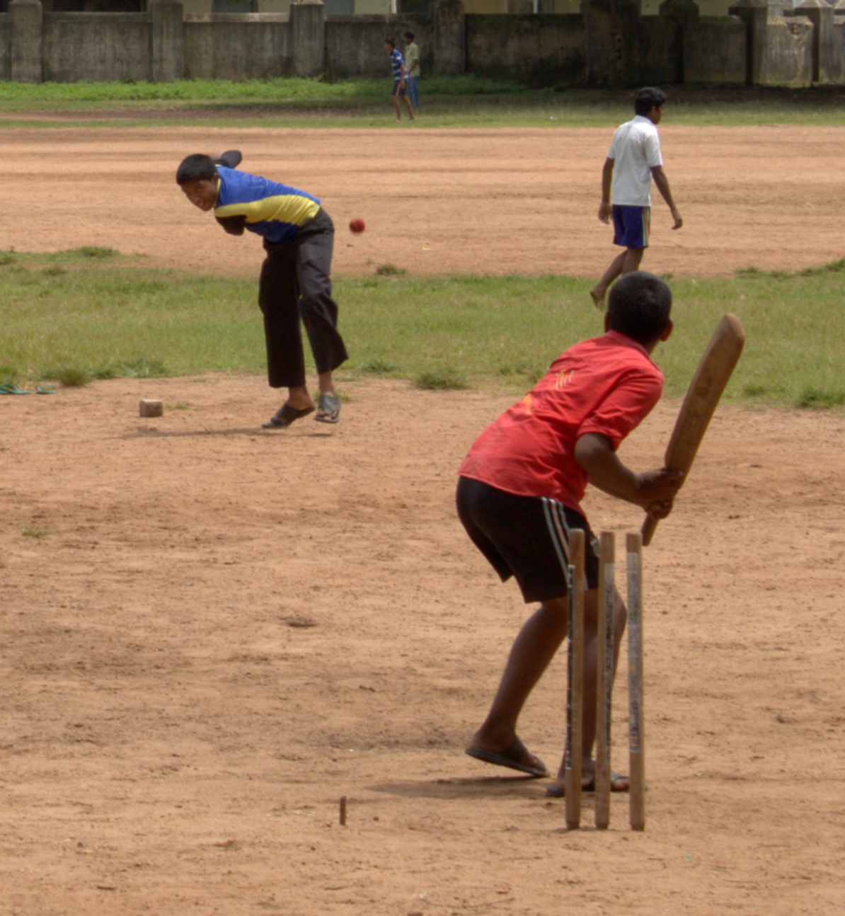 Children playing cricket in Kochi, Kerala, India.